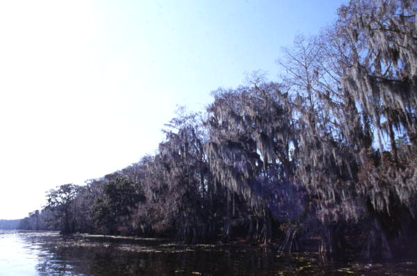 Scenic view of Lake Lochloosa near Hawthorne.